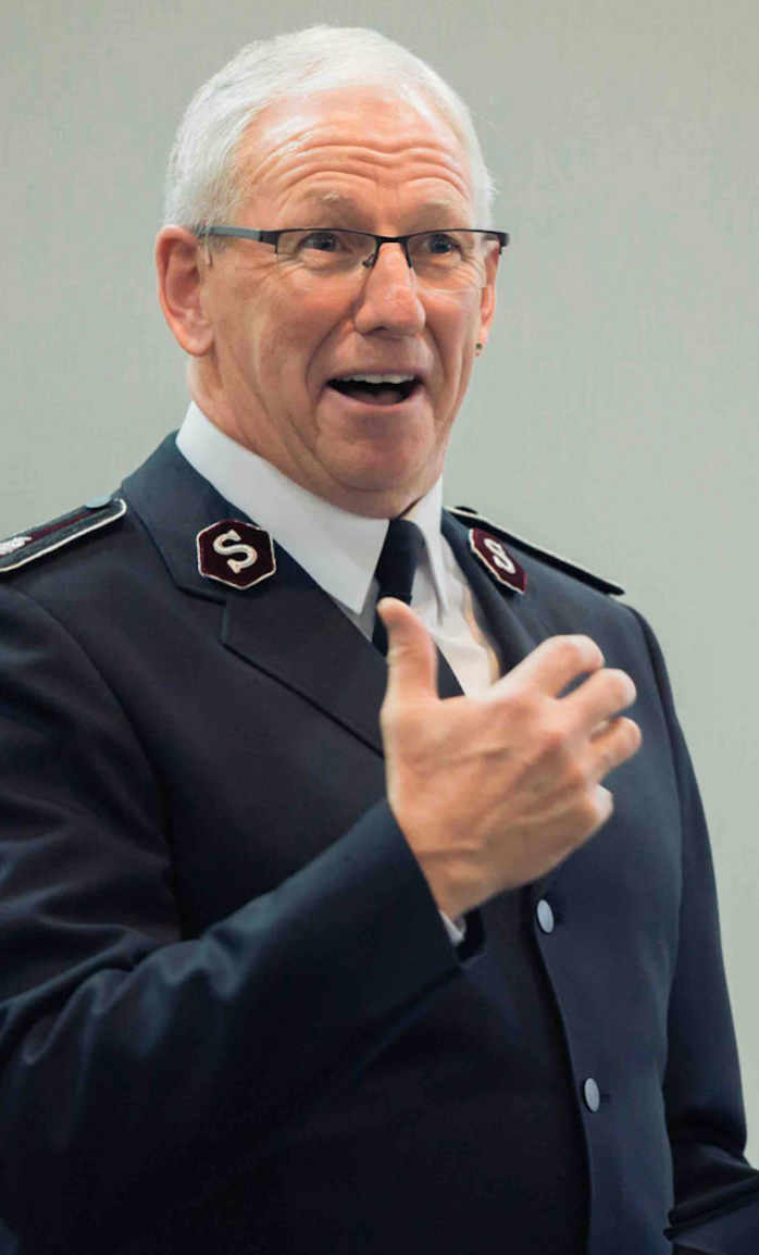 Peddle at International Headquarters - photographed by Nichole MacGregor